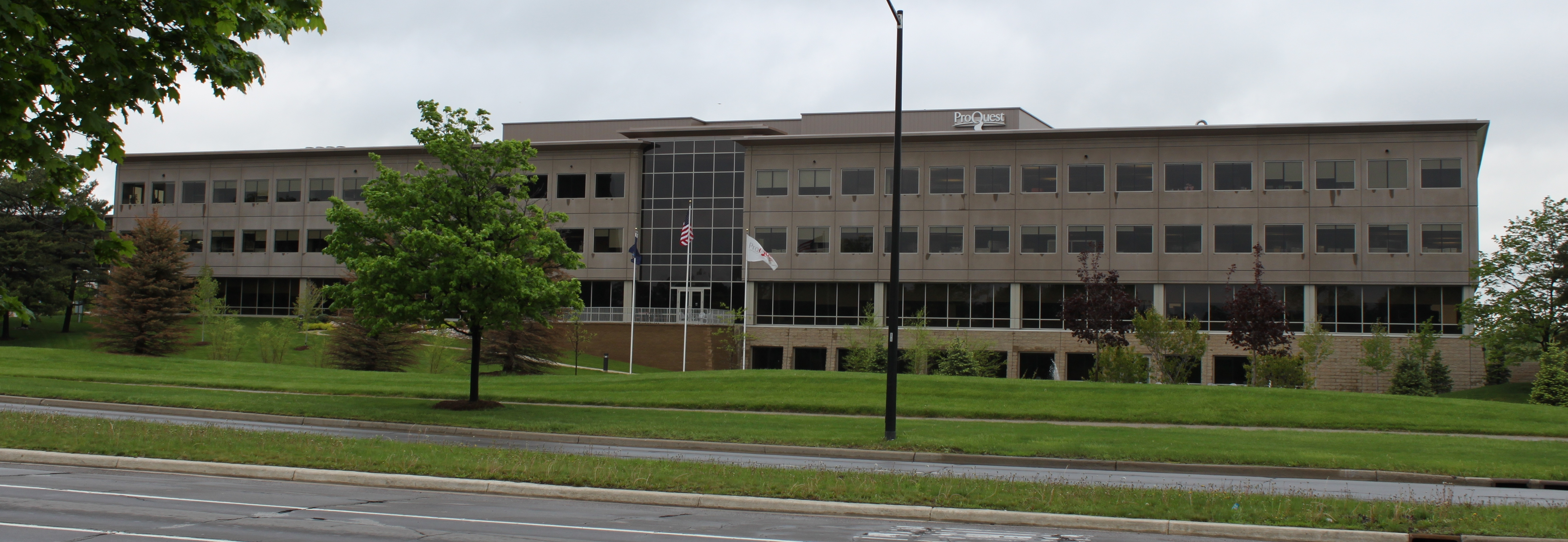 ProQuest building, 789 Eisenhower Pkwy., Ann Arbor, MI 48104